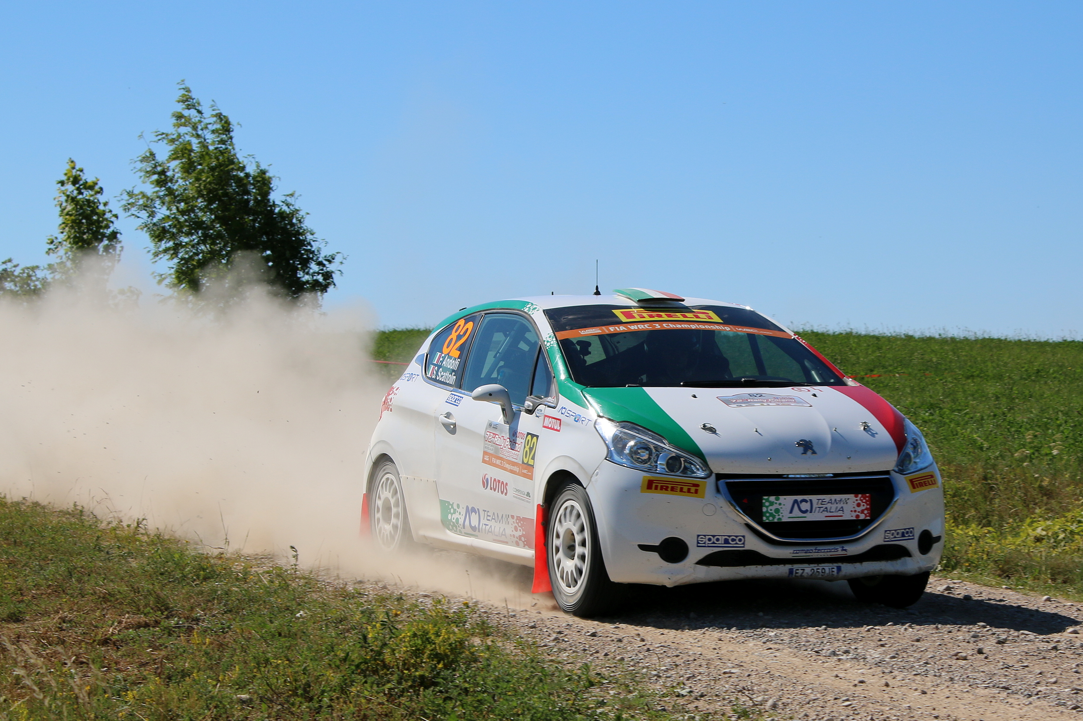 Fabio Andolfi, OS 10 Mazury, 72nd LOTOS Rally Poland